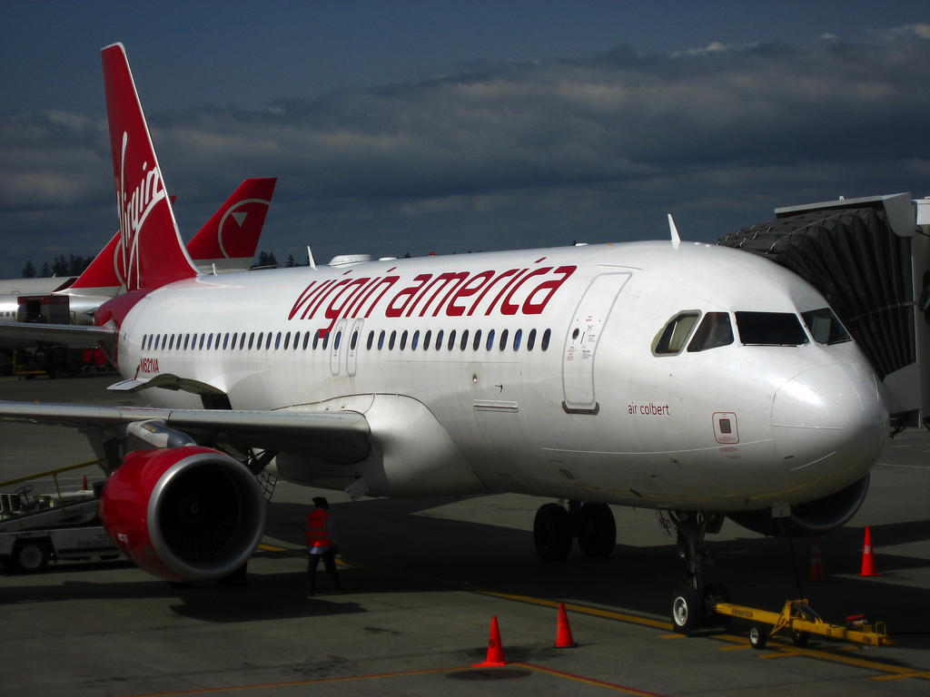 Virgin America plane Air Colbert at San Francisco International Airport